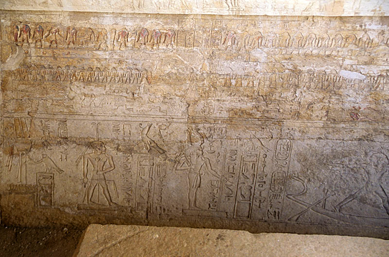 Decorated west wall in the Tomb of Scheschonq III, San el-Hagar (Tanis), Egypt